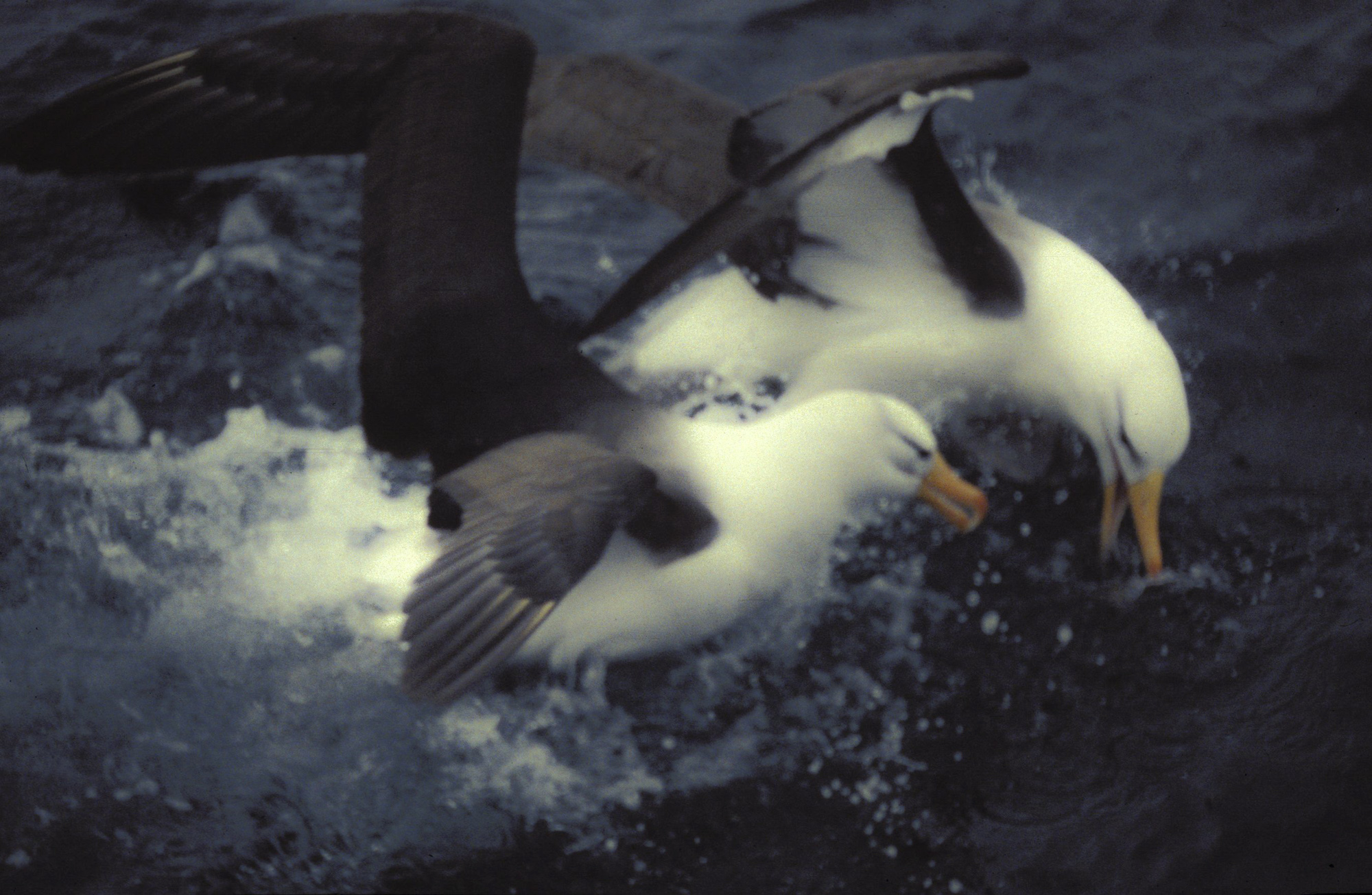 Thalassarche melanophris, South Atlantic